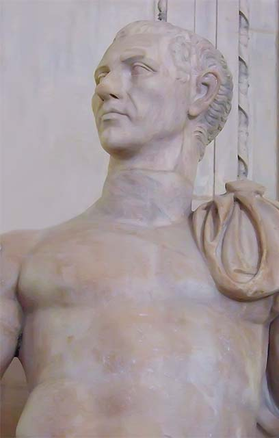 Heroic Nude Statue of the deified Julius Caesar Roman early 1st century CE found in Rome. Photographed at The Musée du Louvre in Paris, France by Mary Harrsch